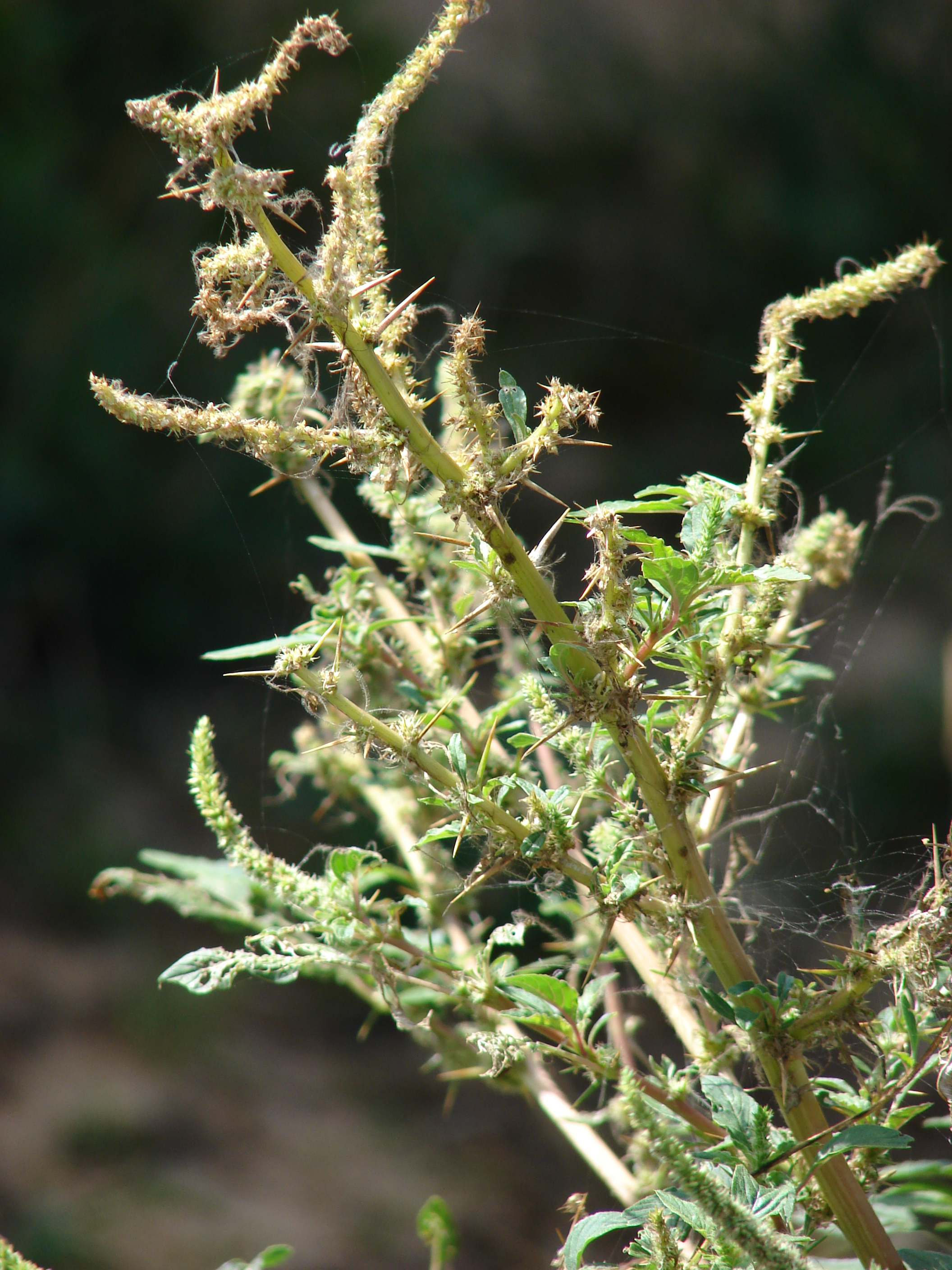 Amaranthus spinosus (spines and gooney down). Location: Midway Atoll, Commodore Ave around residences Sand Island